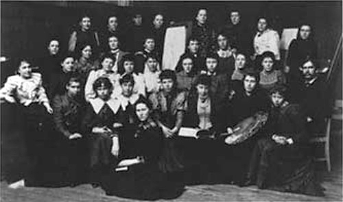 Glasgow GirlsFrancis Newbery, seated right, with students including in the front row from right to left: Frances Macdonald, unknown, Ruby Pickering, Margaret Macdonald, Agnes Raeburn, Katharine Cameron and in front Janet Aitken.